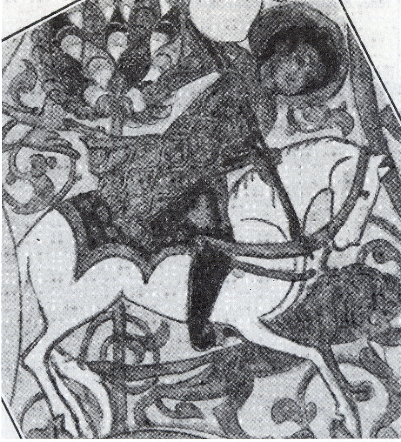 Mamluk] rider with a crossbow at tiger hunt.